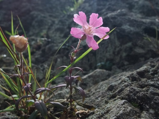 This plant is belong to Caryophyllaceae group. I took this Picture Tanzawa Mountains in Kanagawa Prefecture at 2009 AUG 14. Height about 1100m.